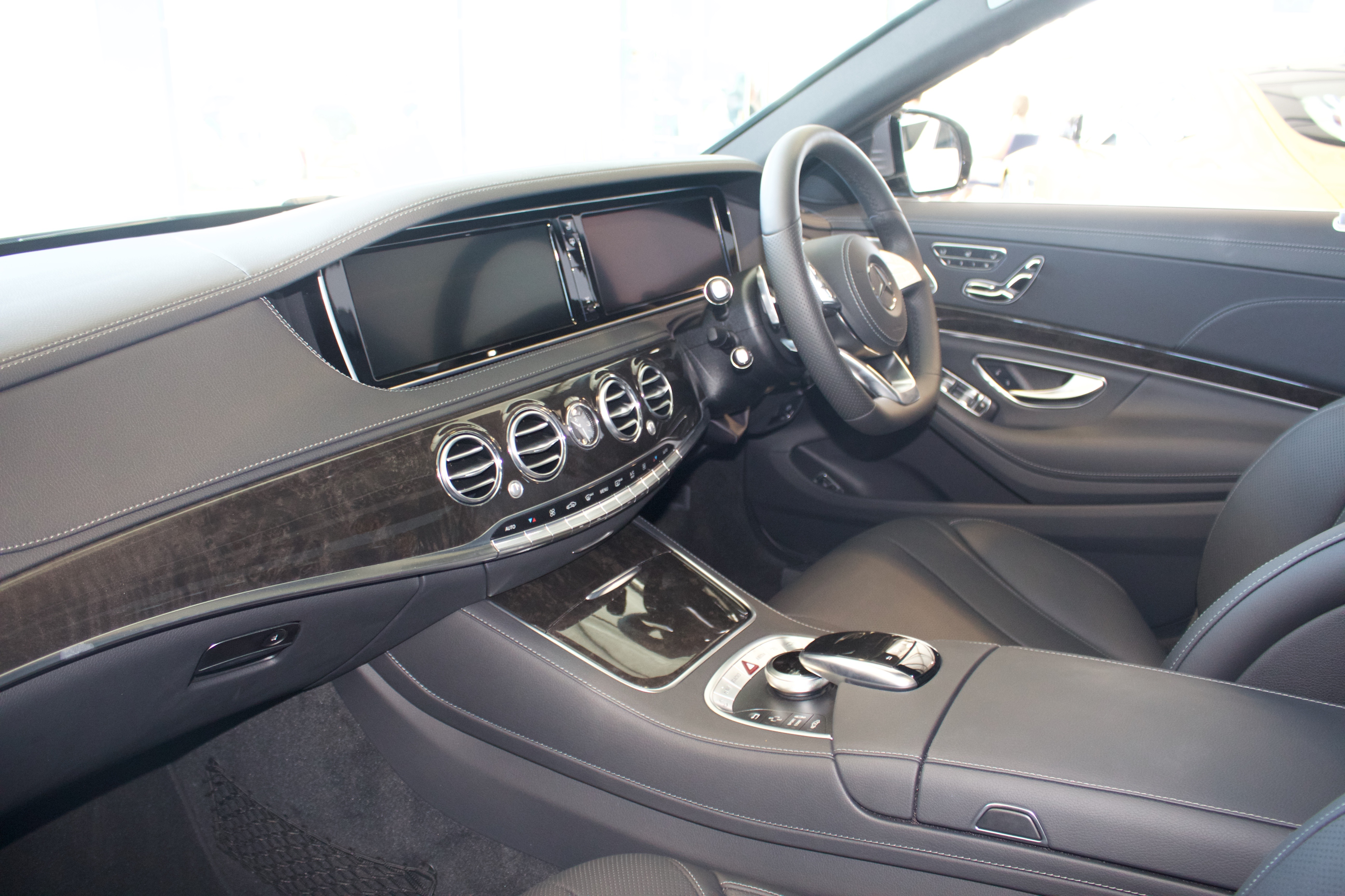 Interior of a 2016 Mercedes-Benz S 350 d (W 222) AMG Line sedan. Photographed at Diesel Motors, St James, Western Australia, Australia.